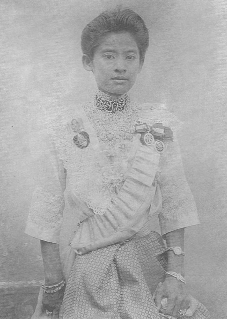 HRH Princess Oraprabandh Rambai, daughter of King Chulalongkorn (Rama V the Great) of Siam and The Noble Consort (Chao Chom Manda) Aon Bunnag